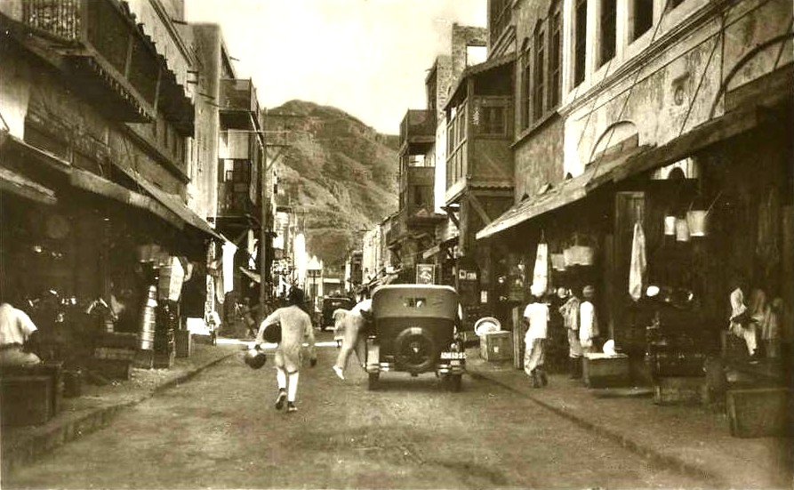 The tin bazaar of Crater, Aden, in the 1920s